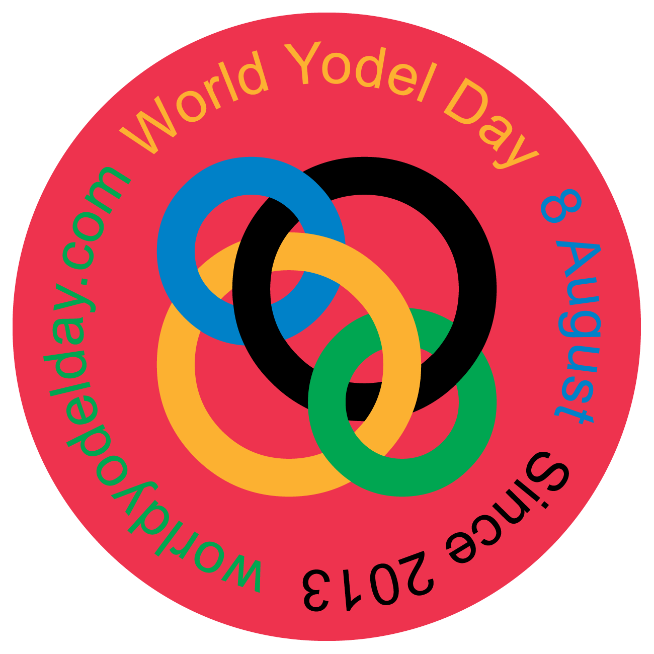 World Yodel Day Logo designed by Minsung Park, a Korean Yodeler